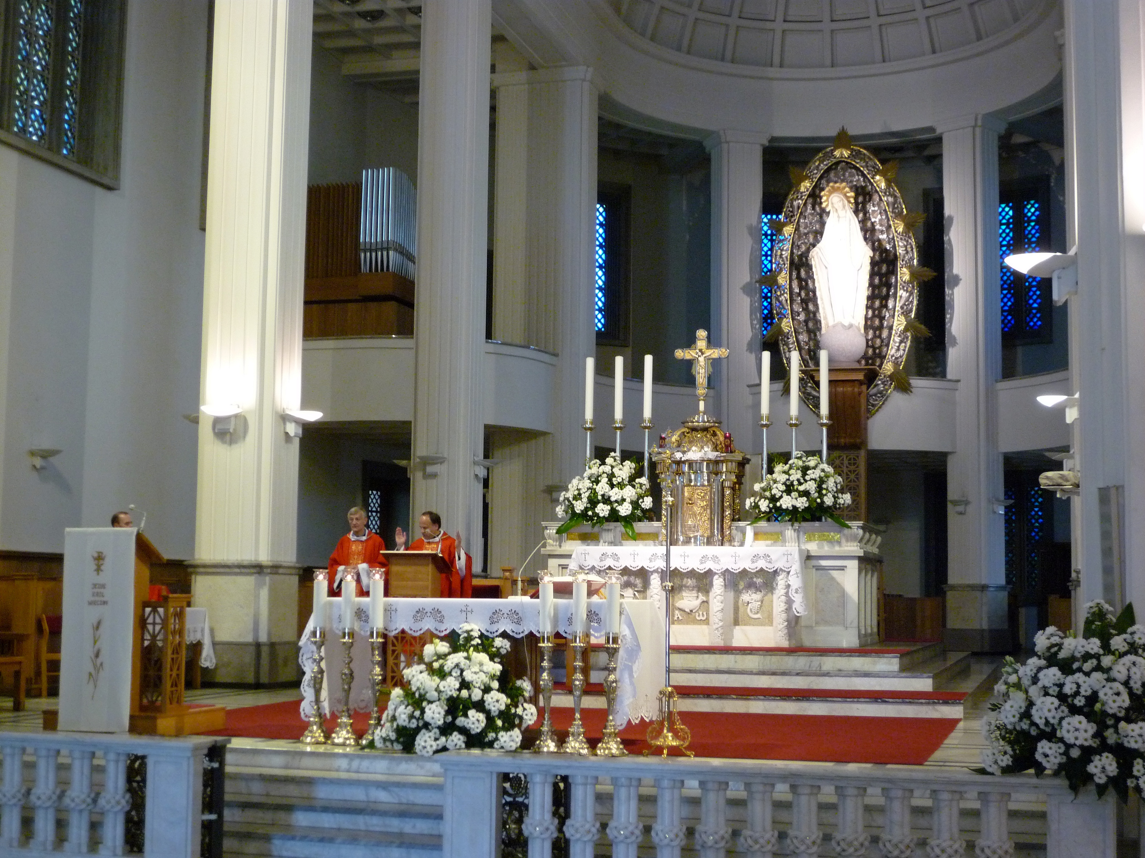 Basilica in Niepokalanów - main altar